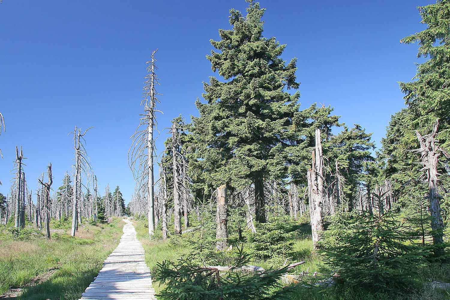 Jizera Mountains, district Liberec, Czech Republic